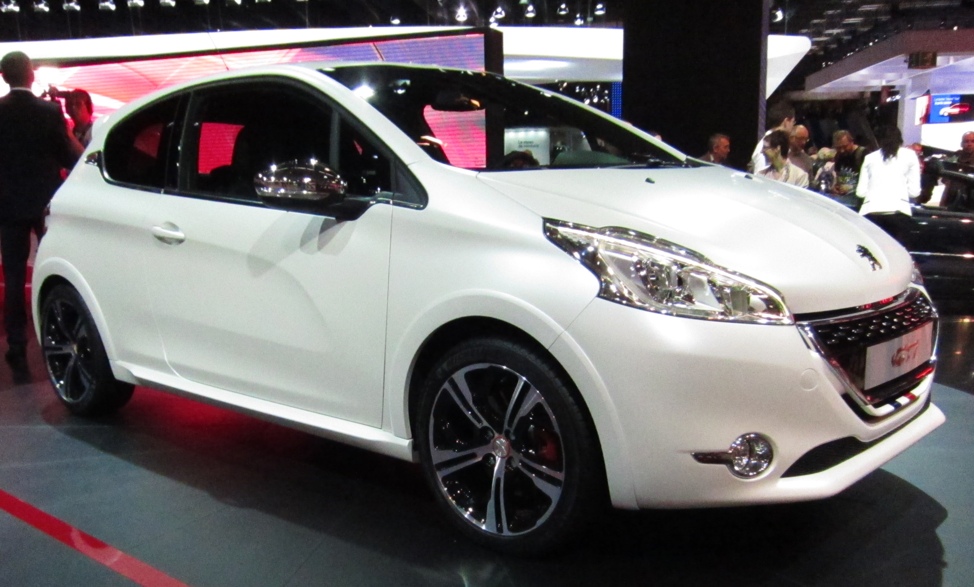 Peugeot 208 GTi at Mondial de l'Automobile Paris 2012